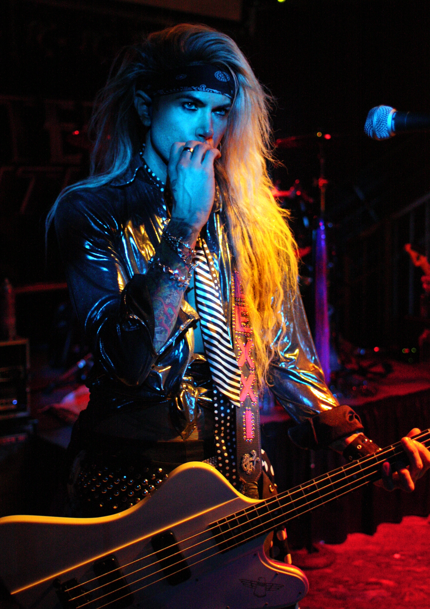 Travis Haley performing with Steel Panther in San Diego on February 18, 2009.